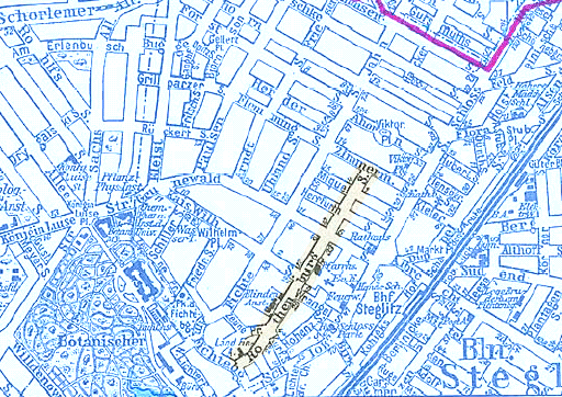 Position of the street "Rothenburgstraße", Berlin-Steglitz 1925